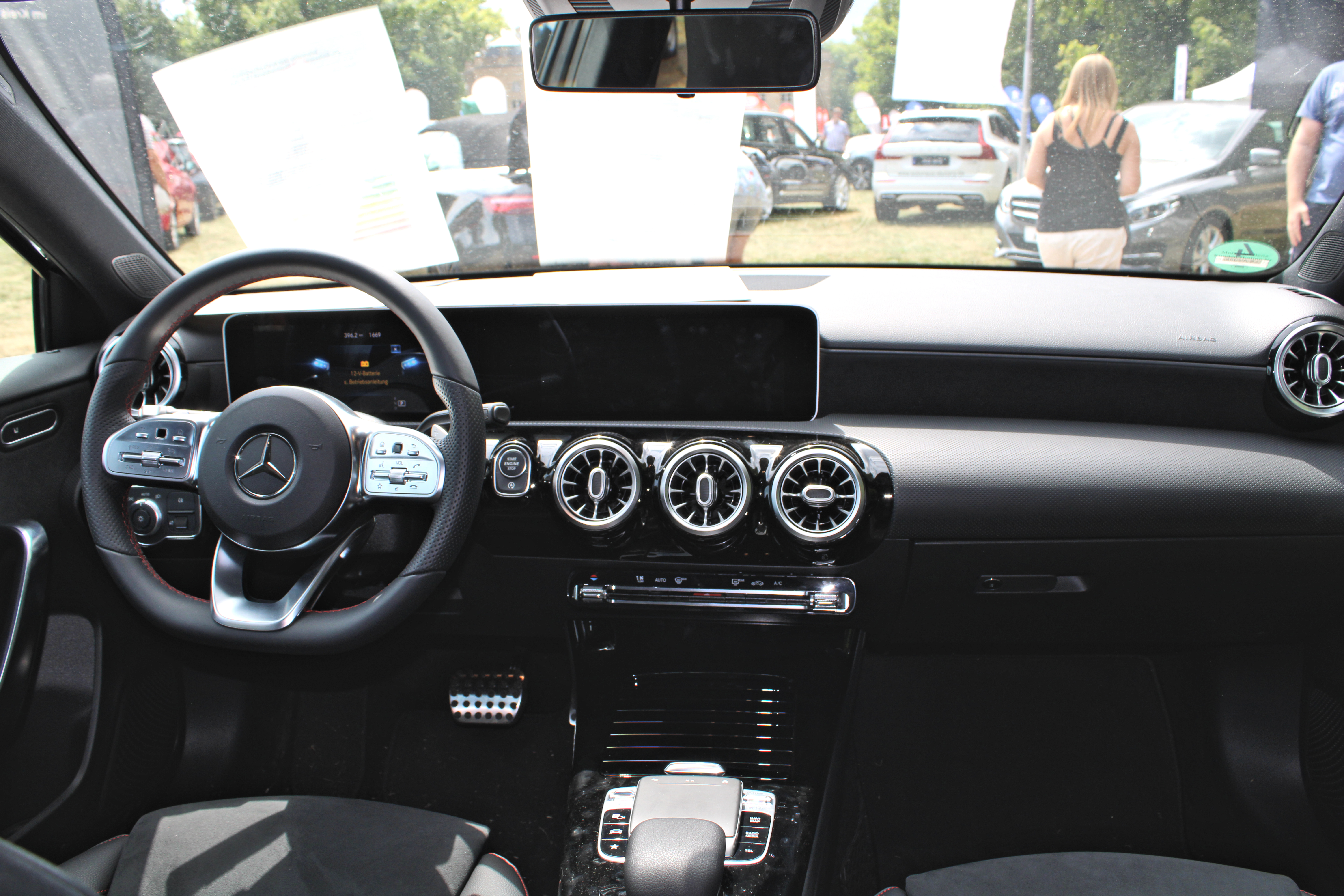 Mercedes-Benz A 200 at schloss Monrepos